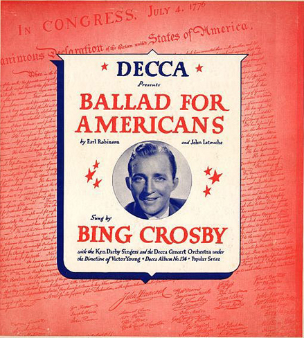 1940 78 rpm album